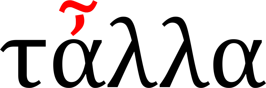 Coronis circumflex